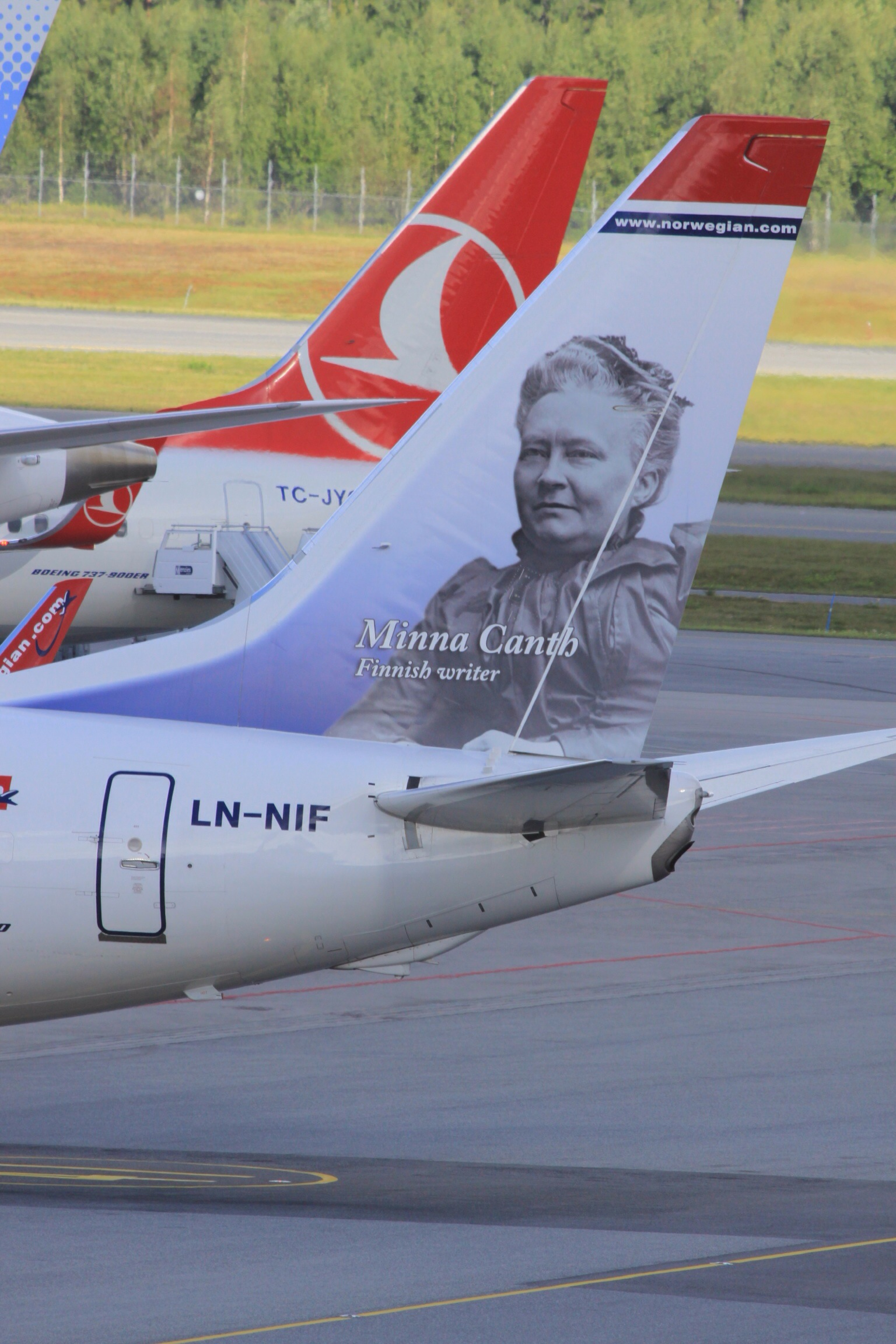 At Oslo Gardermoen